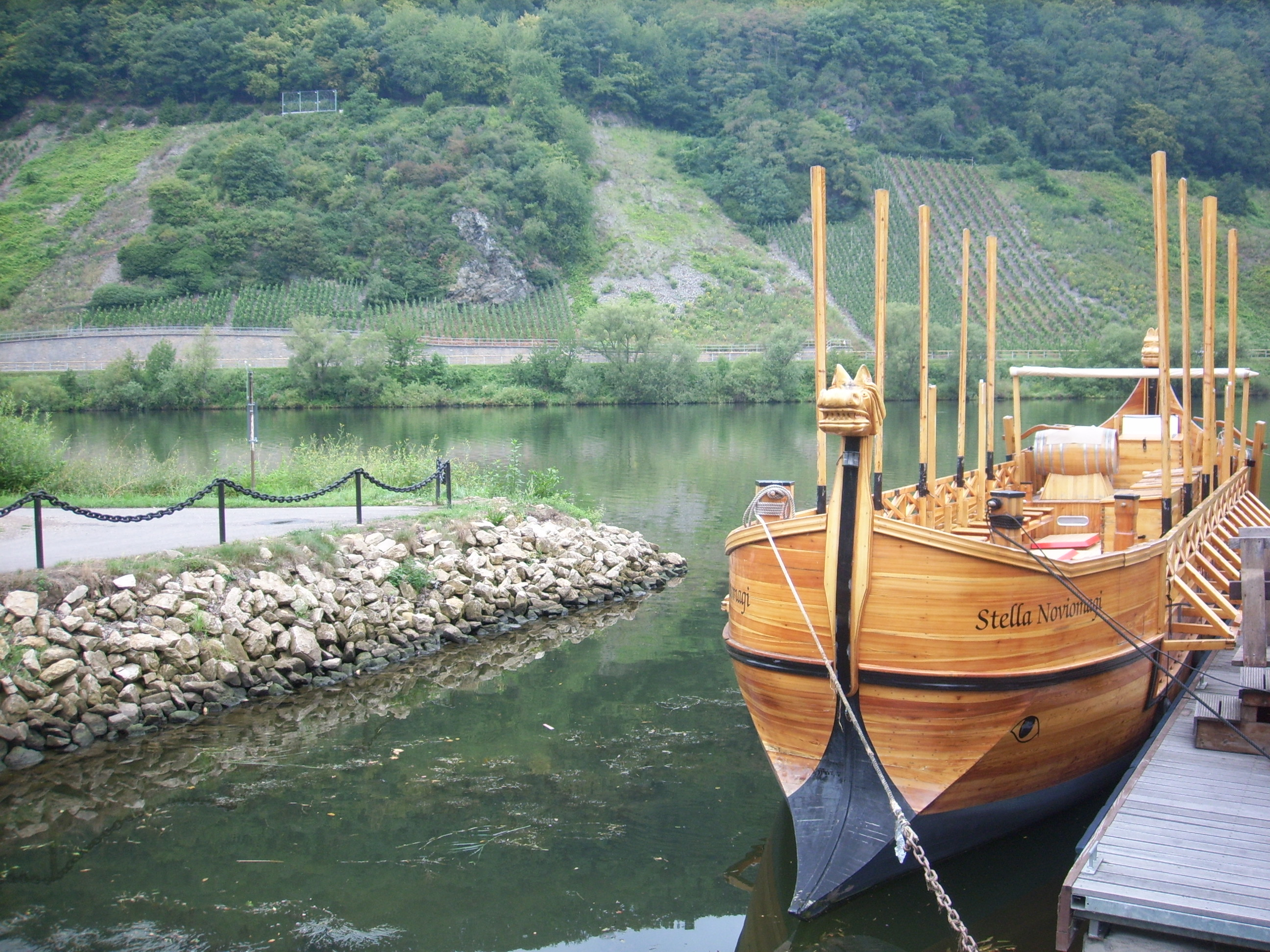 Replica of the wineship at Neumagen-Drohn (Foto Ruben A. Koman, 2011).